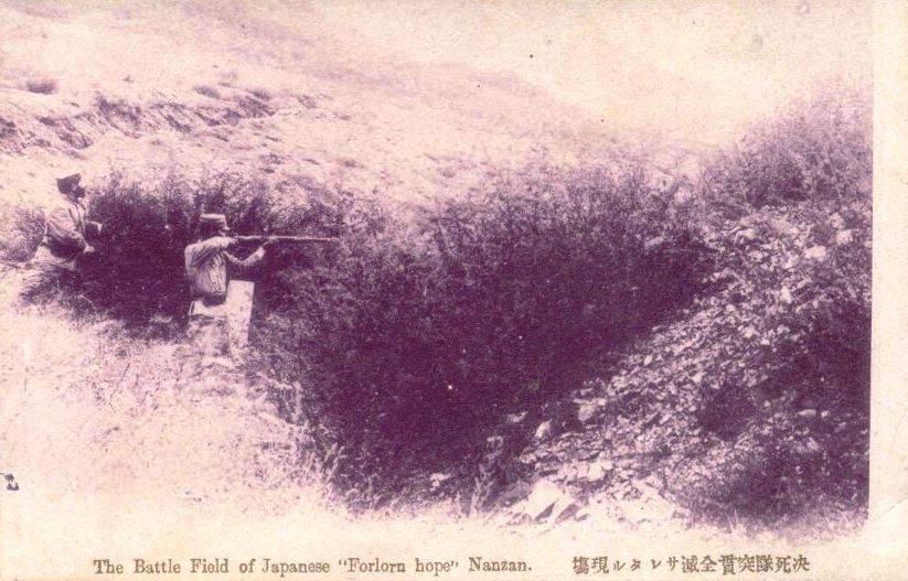 Japanese postcard depicting Battle of Nanshan in the Russo-Japanese War of 1904-1905